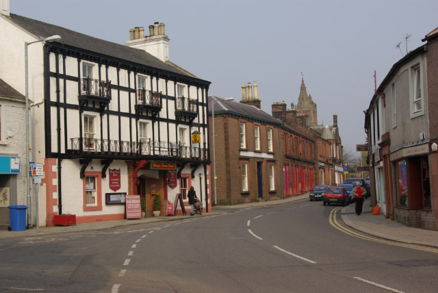 Lockerbie Looking along Townhead Street, the main route north out of the town.